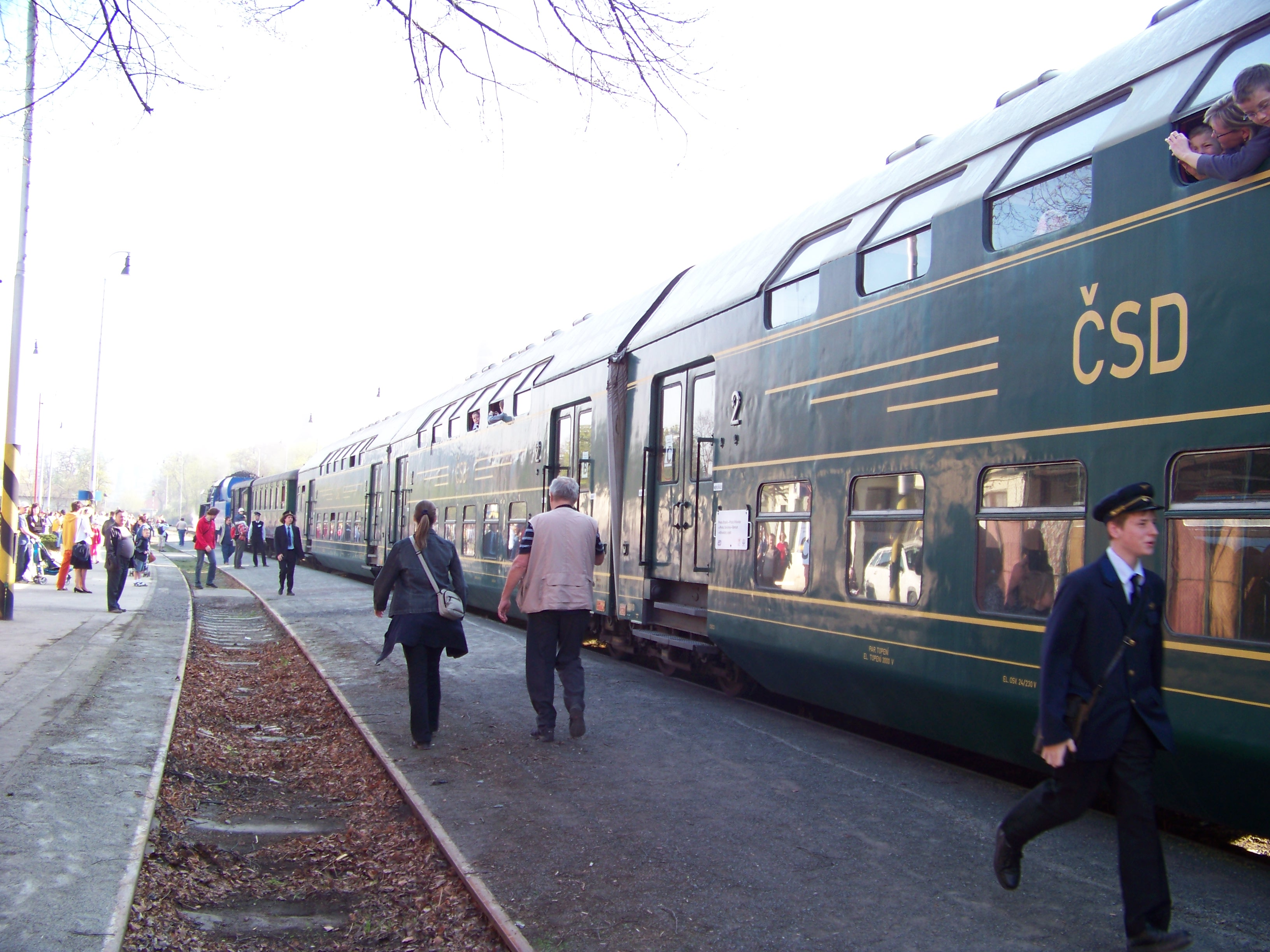 Braník, Prague, the Czech Republic. A historical train.